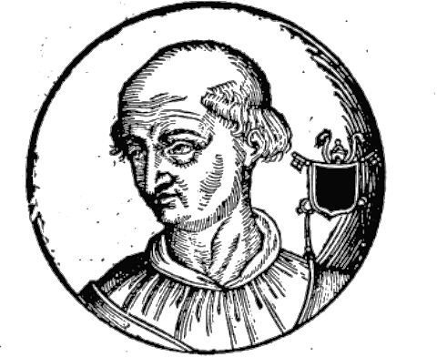 Pope John XII, drawn extracted by Bartolomeo Sacchi said Platina, Vite De' Pontefici, edited by Onofrio Panvinio, per i tipografi Turrini, e Brigonci, Venice 1663